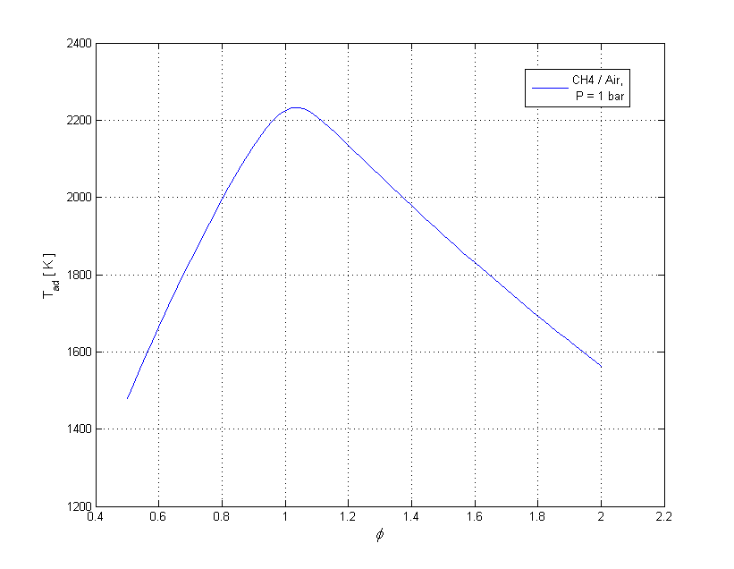 Adiabatic flame temperature of CH4 / air mixtures vs equivalence ratio. P = 1 bar, T0 = 298.15 K. Calculated by Cosilab v. 3.3.2.